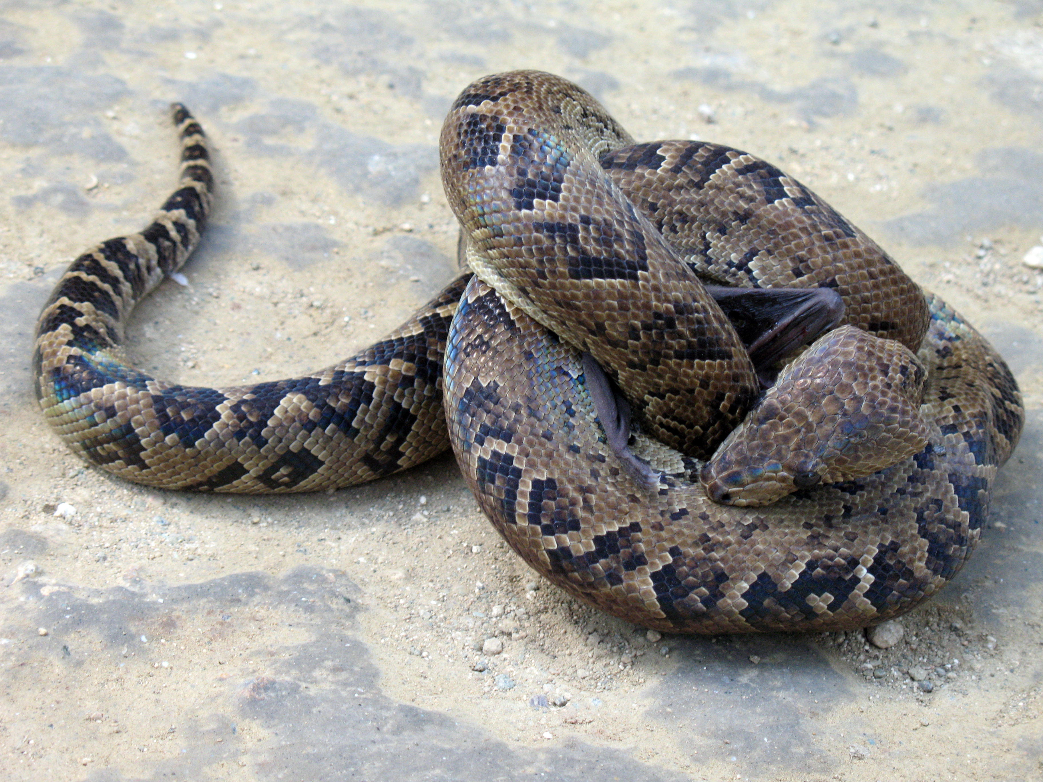 Northern coast of Holguin province in eastern Cuba (near Cayo Saetía) - A snake is fighting against a bat